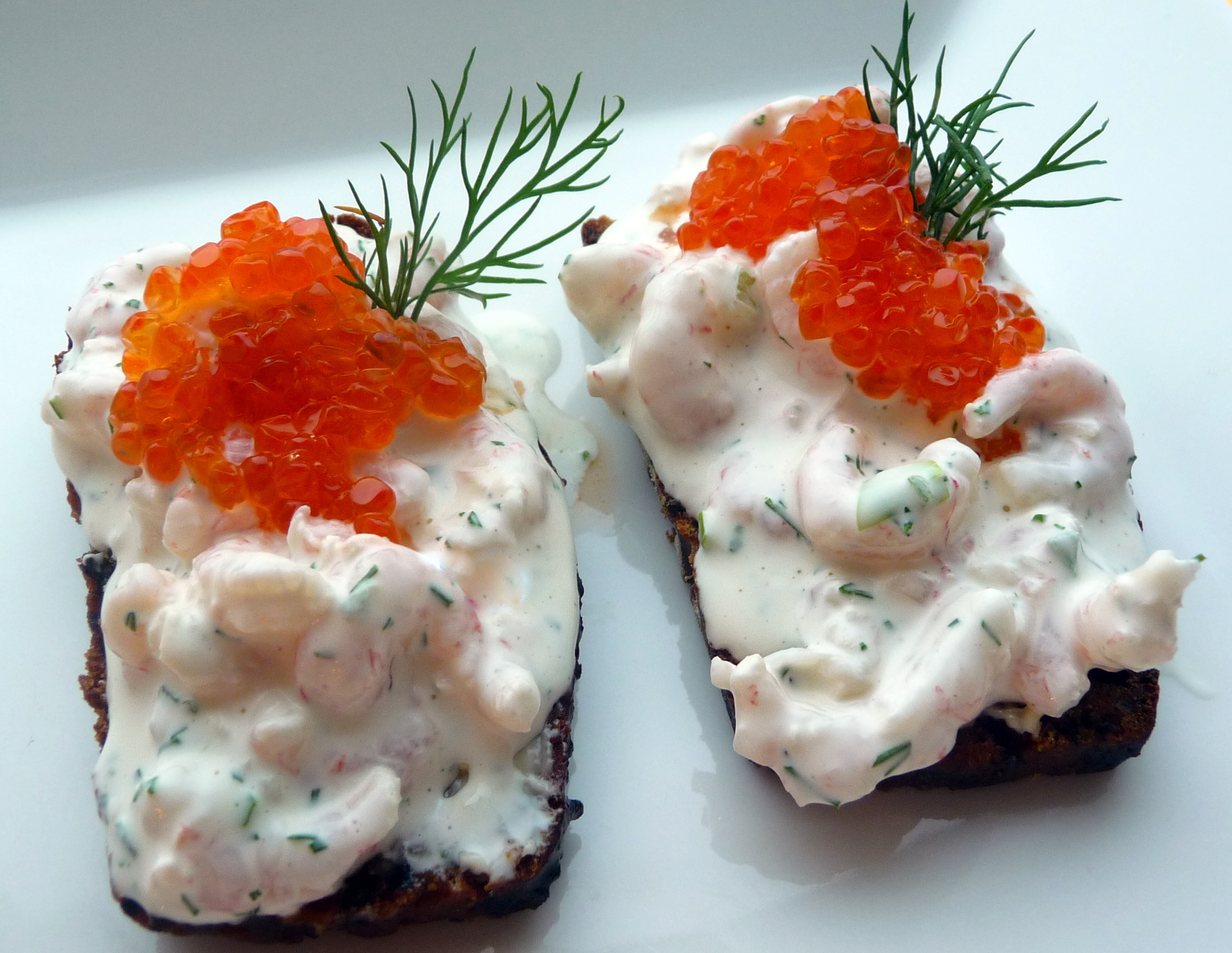 Prawns Skagen with cold-smoked salmon roe on an "islander's bread" (saaristolaisleipä)